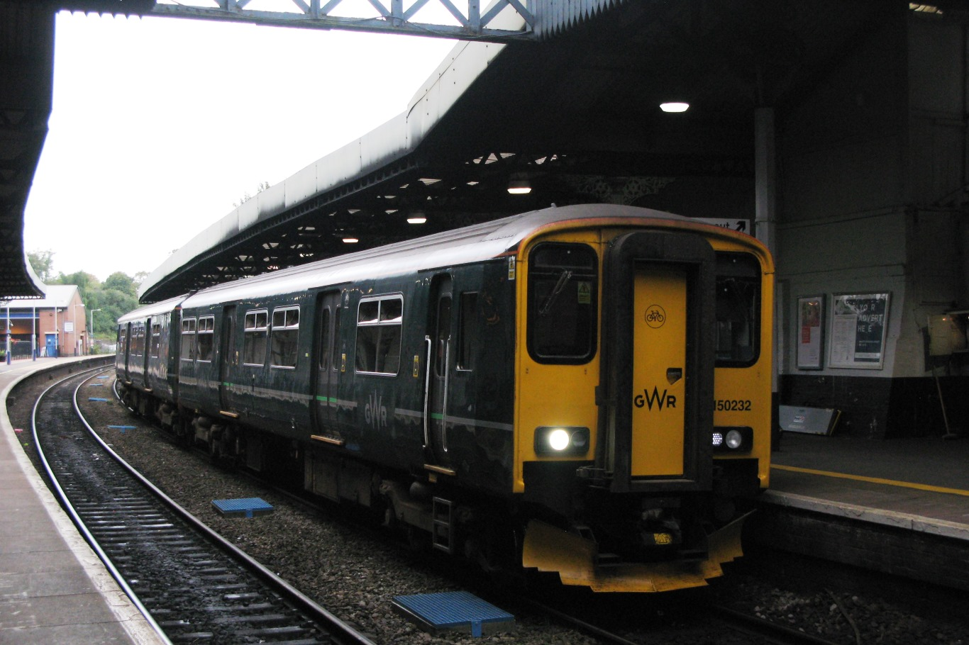 GWR refurbished 'Sprinter' 150232 calls at Cheltenham Spa with a Great Western Railway service to Great Malvern.